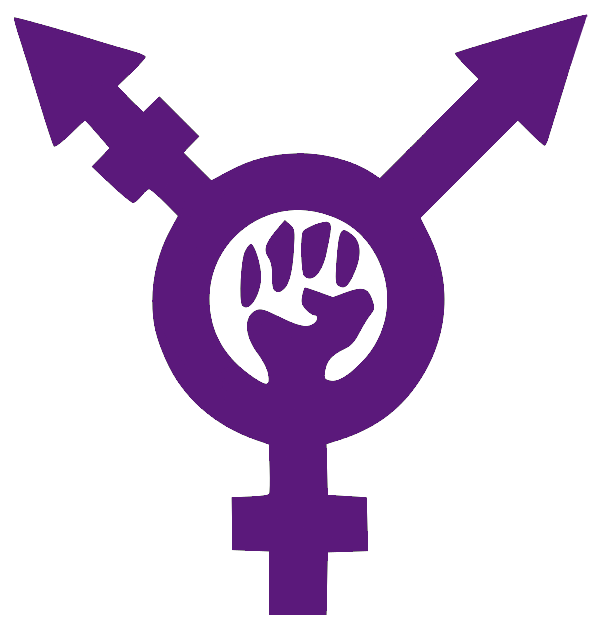 Transfeminism symbol (purple).